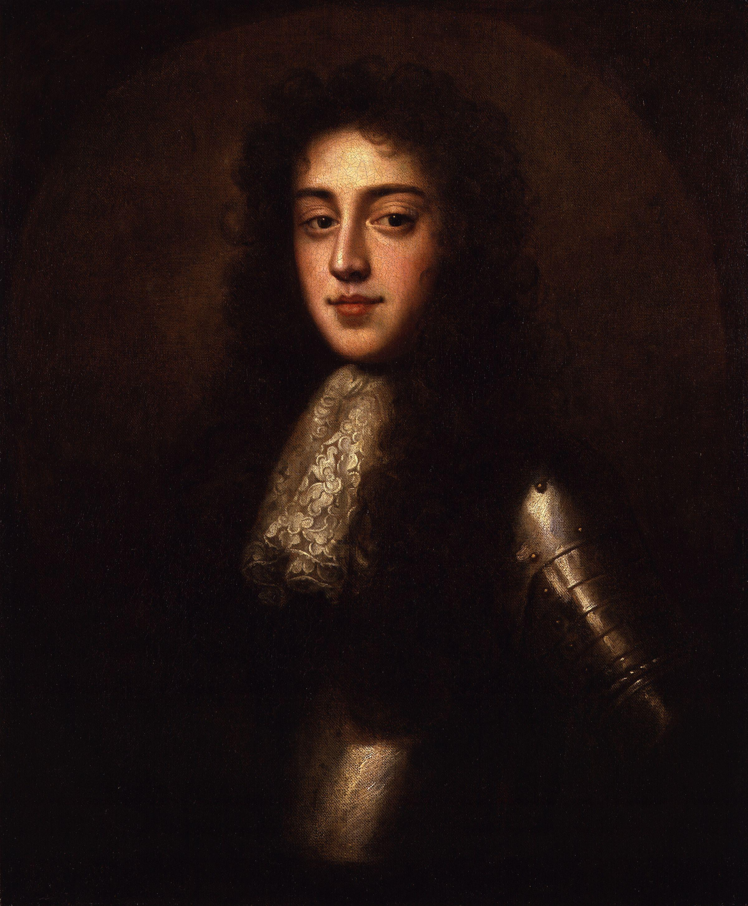 John Cutts, Baron Cutts, by William Wissing (died 1687). All images in this batch have been confirmed as author died before 1939 according to the official death date listed by the NPG.